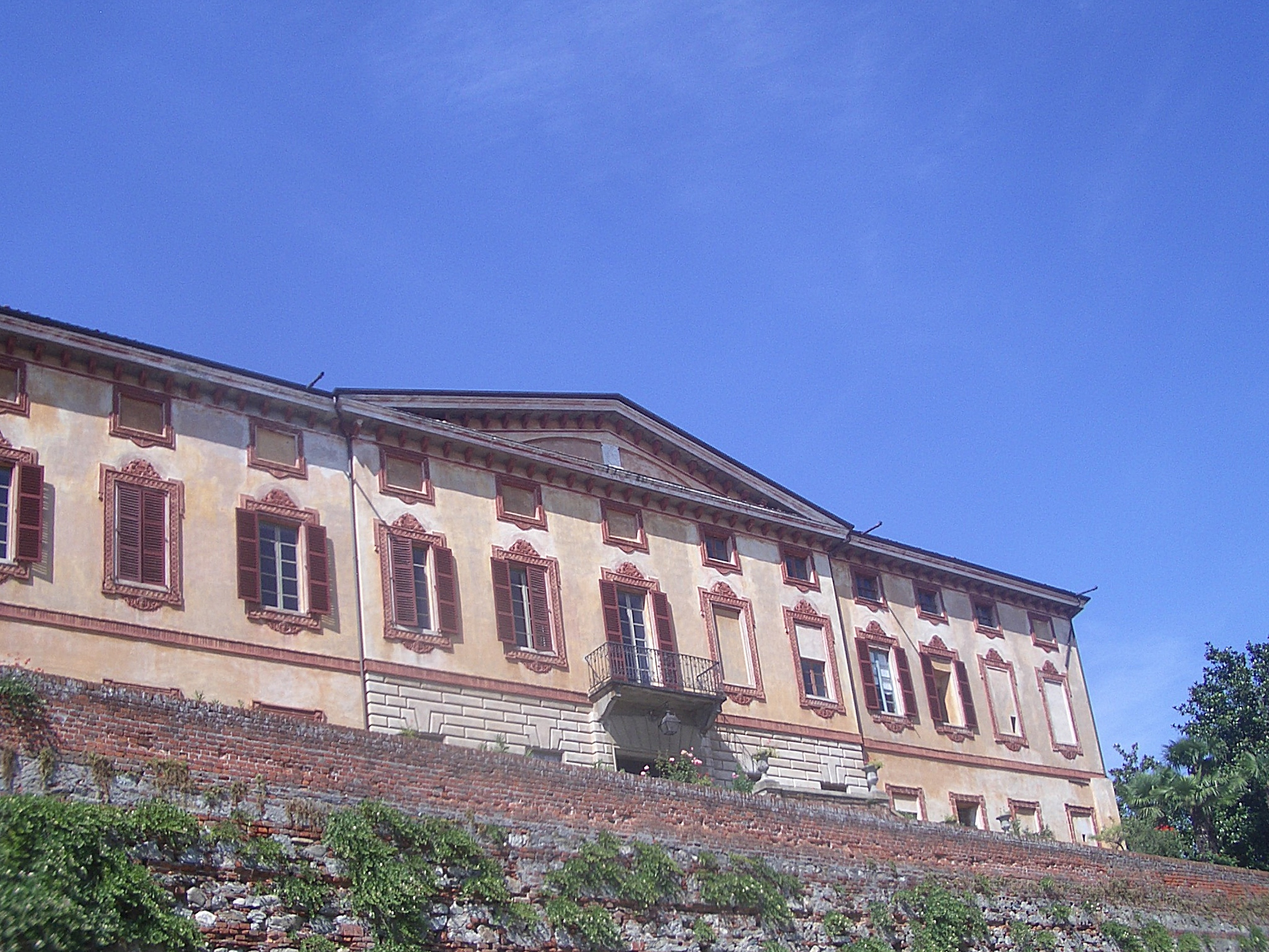 Azeglio, the "castle" ( the palace where lived the family Tapparelli, marquess of Azeglio)